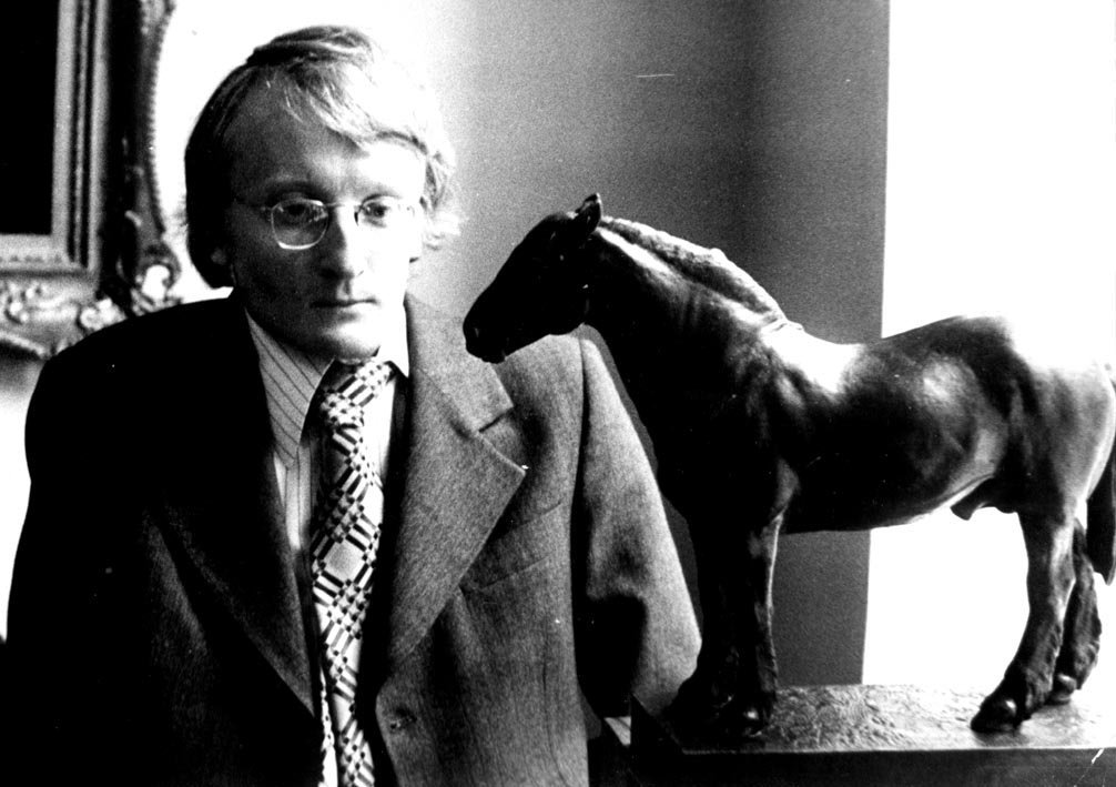 Sergey Leonidovich Sukharev, the Russian poet and translator (b. 1947).